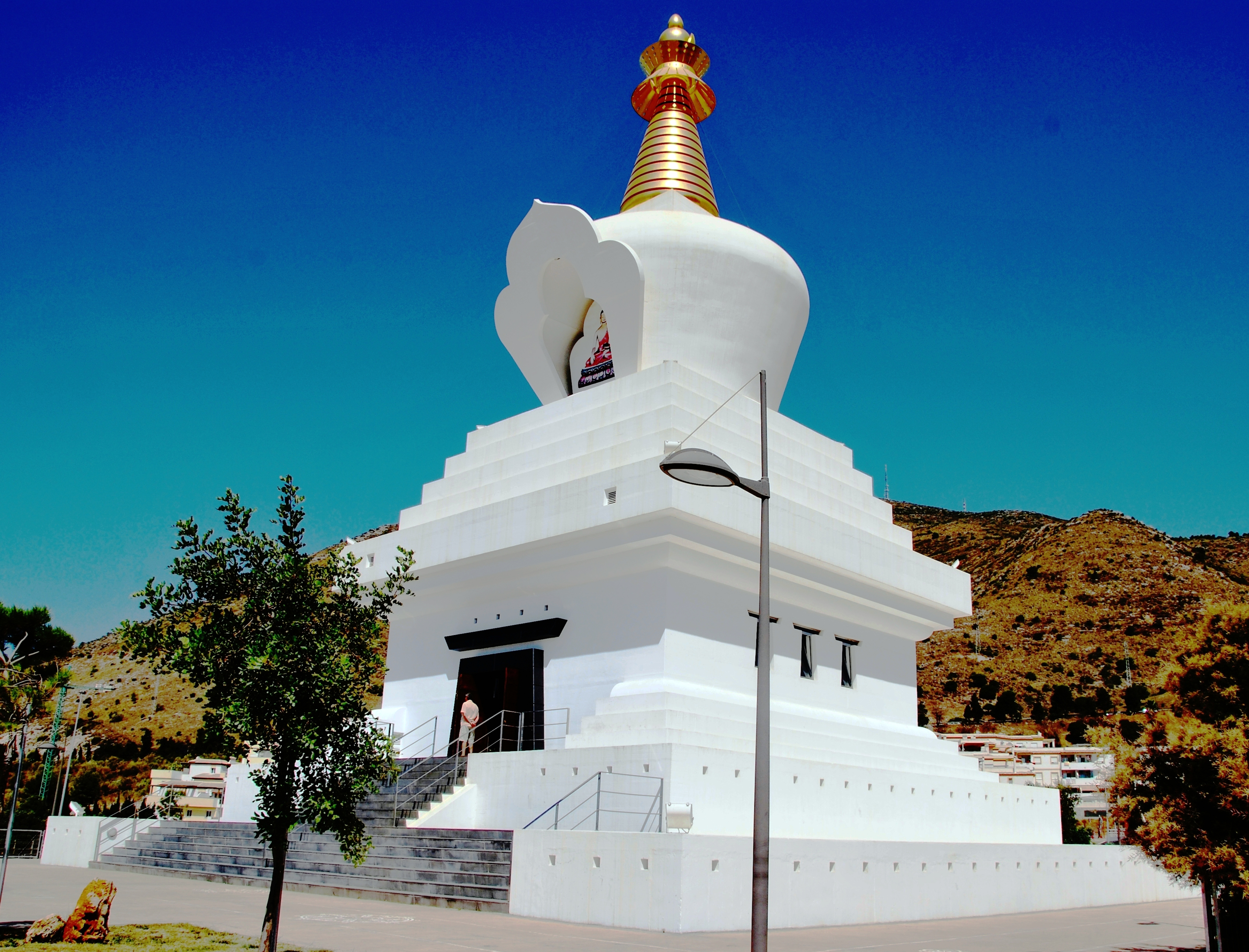 Buddhist huge stupa of Benalmadena (Málaga, Spain)